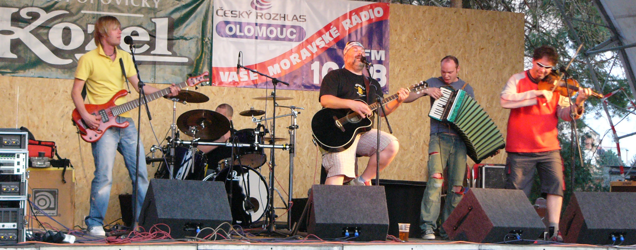 Czech music band Fleret in April 2006 in Olomouc (Czech Republic).